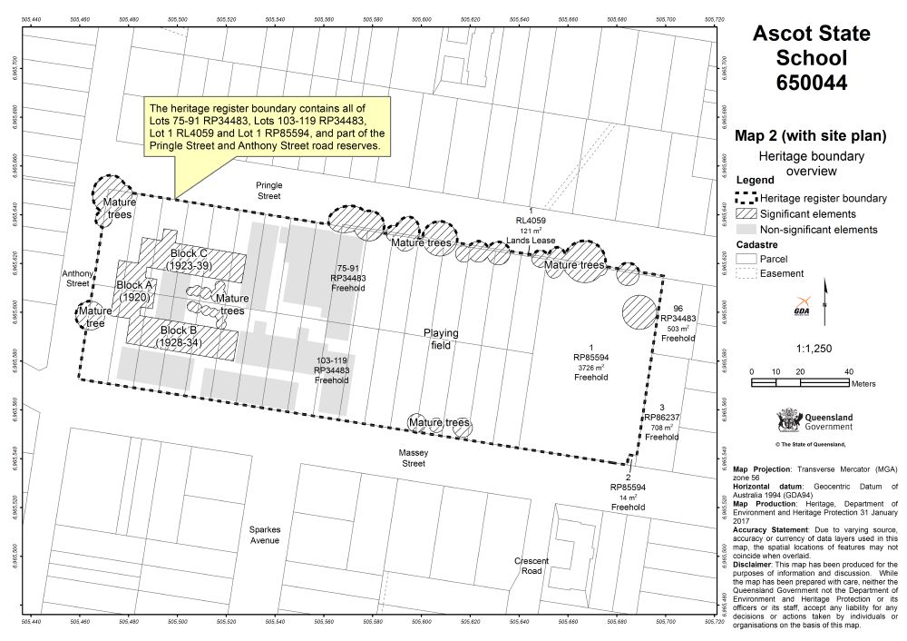 650044 - Ascot State School - map 2 (2017)